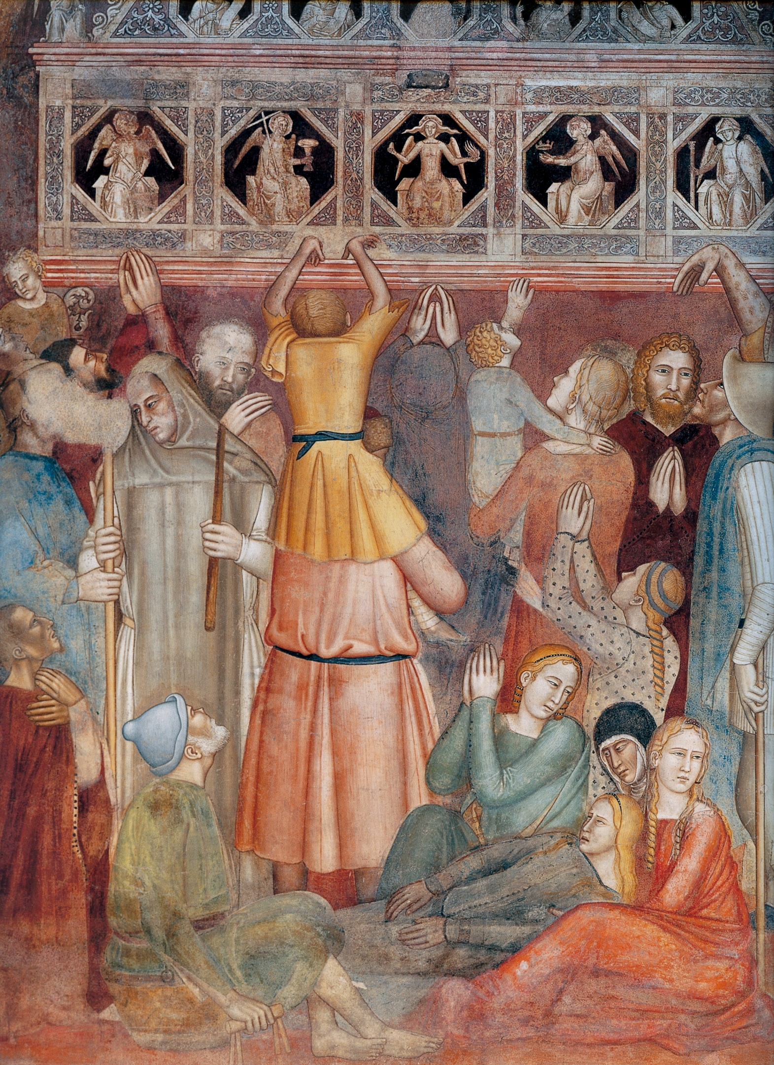 Andrea_di_Bonaiuto._Santa_Maria_Novella_1366-7_fresco_0014